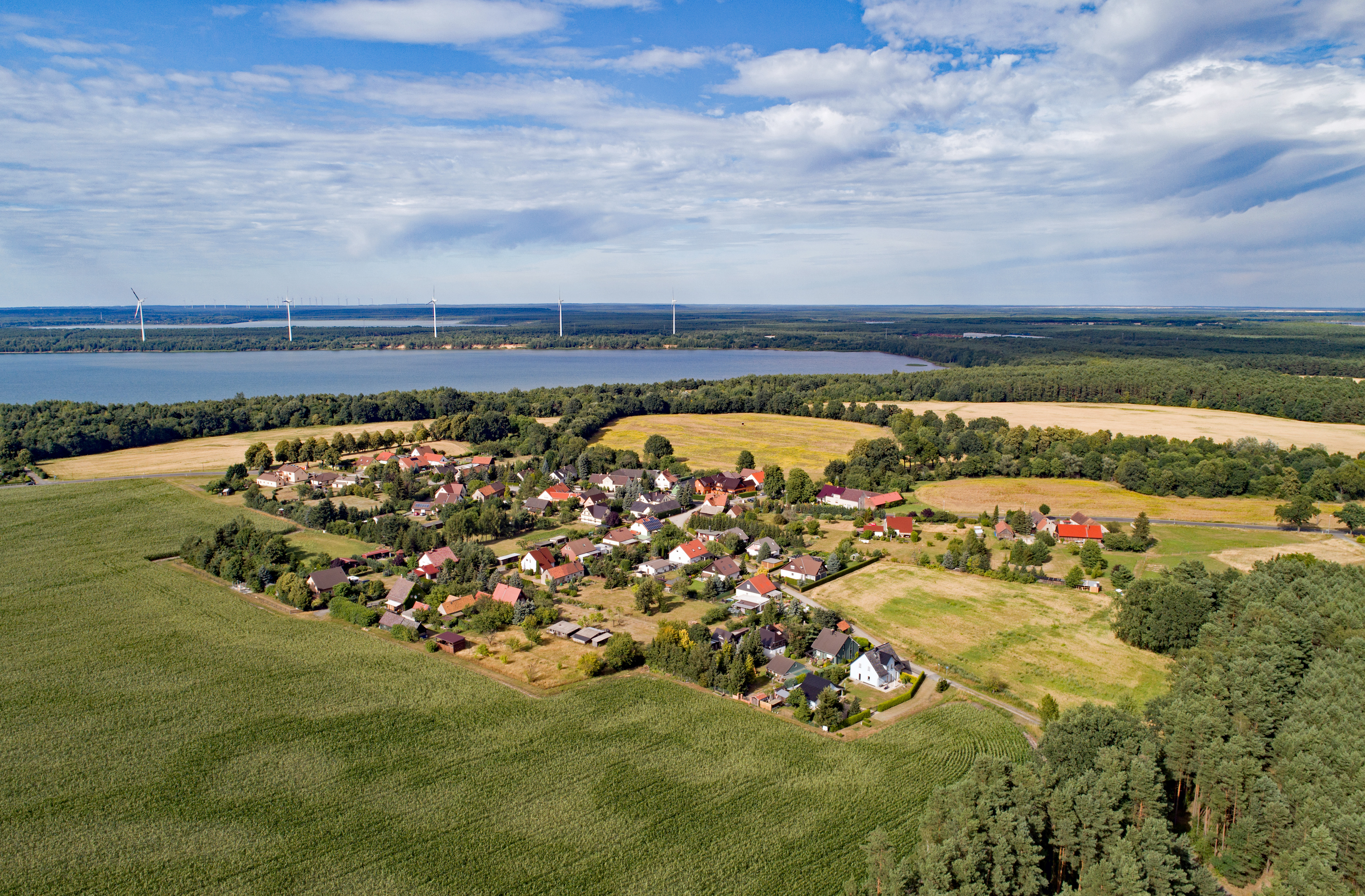 Riegel (Lohsa, Saxony, Germany) Hornjoserbsce: Powětrowy wobraz Roholnja